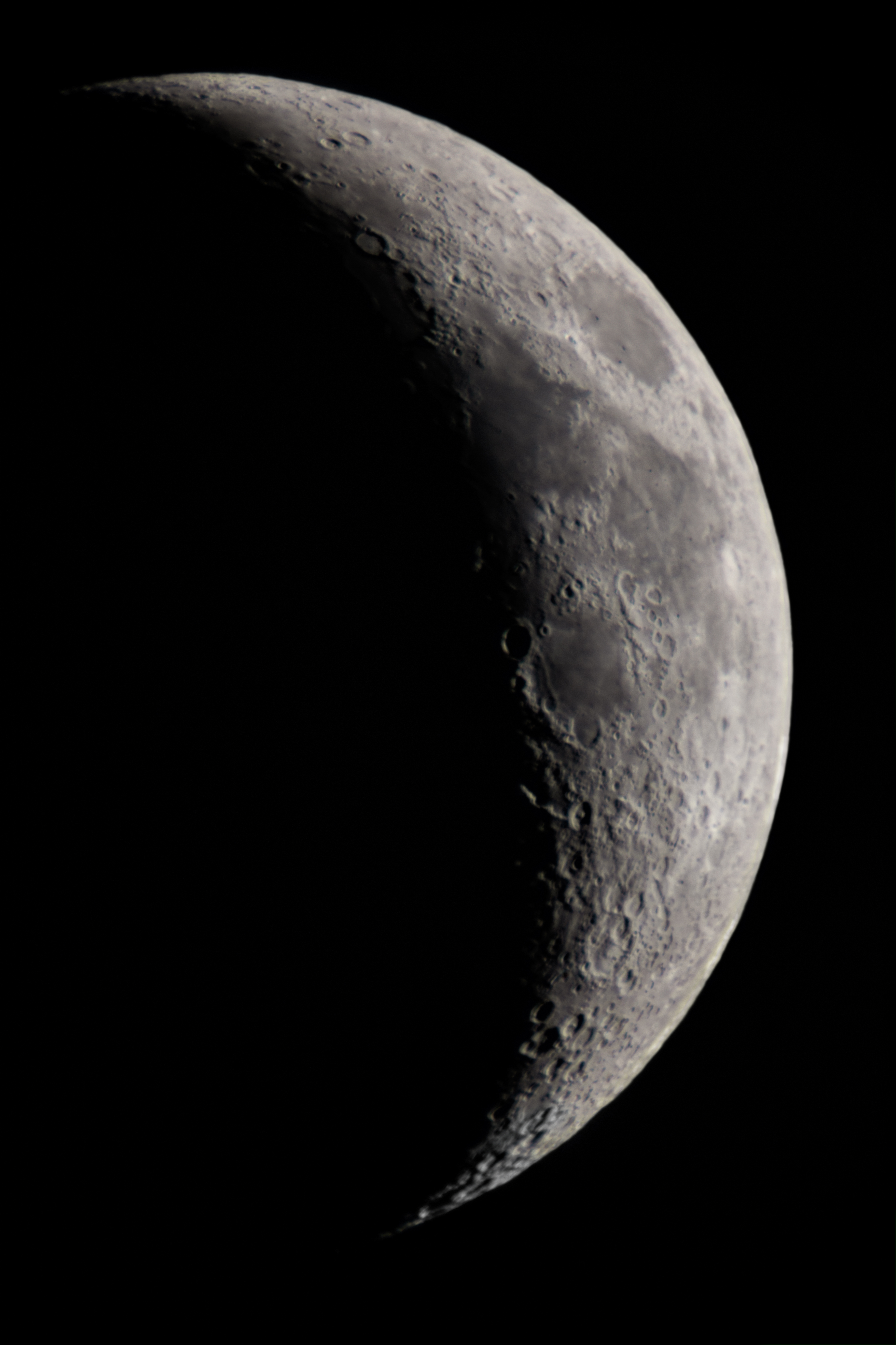 Kuffner-Observatory, Vienna, Austria, Refractor (1886) 3,500 mm, Kuffner-Observatory, Vienna This image was uploaded as part of European Science Photo Competition 2015.